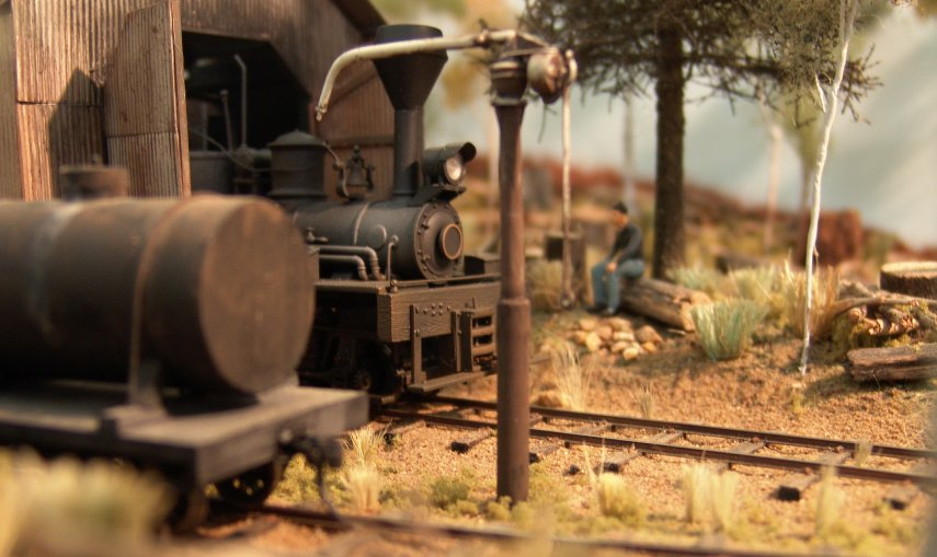 An O-gauge model railway. Photograph by John Catsoulis, .